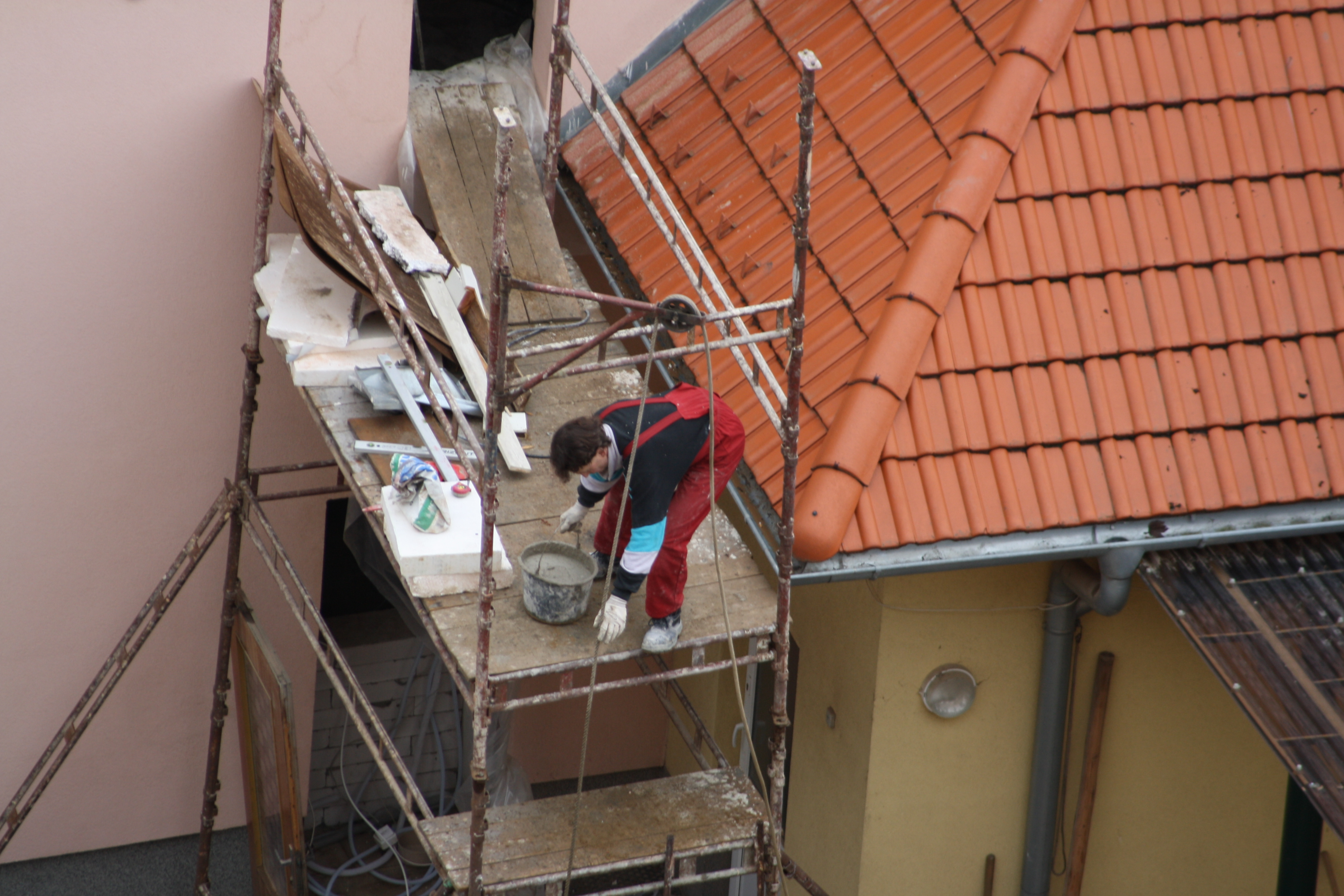 Worker at scaffolding in Třebíč, Czech Republic.